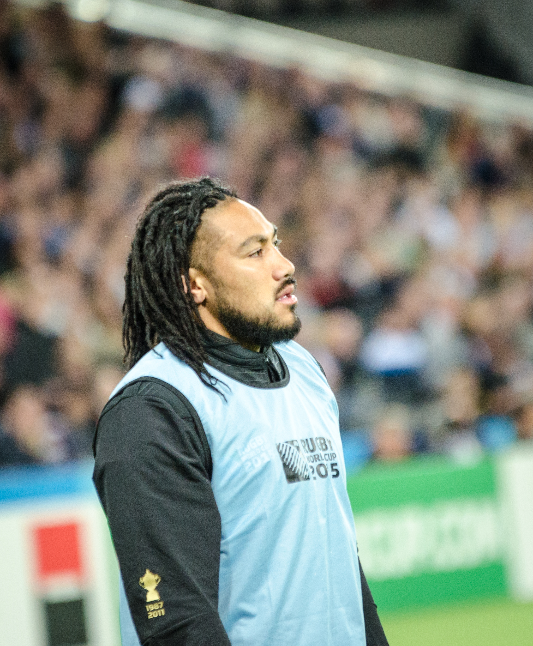 New Zealand international rugby union player Maʻa Nonu before the 2015 Rugby World Cup match against Namibia.